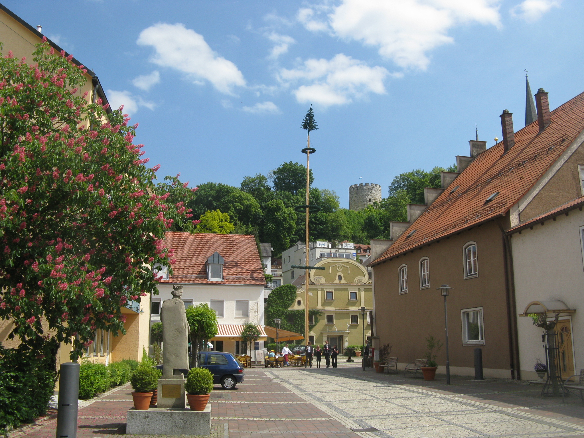 Bad Abbach, city centre with castle, Bavaria/Germany